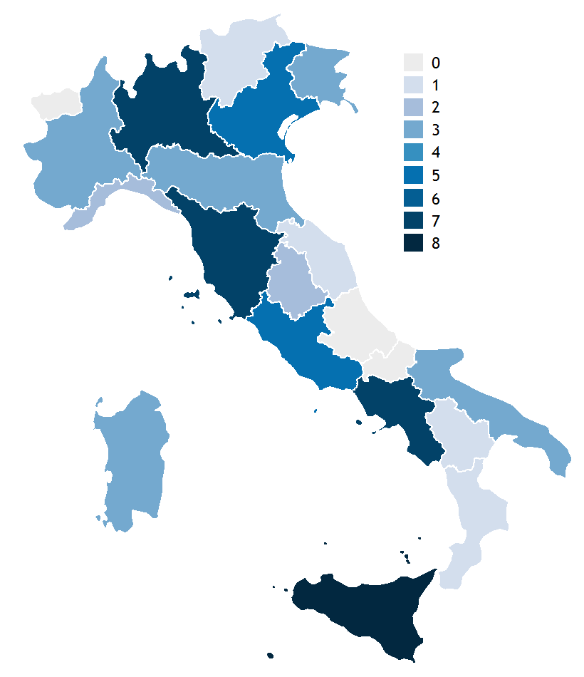 This map shows UNESCO world Heritage Sites breakdown by region in ITALY. It does not include heritages shared with other states and are counted the immaterial heritages too.